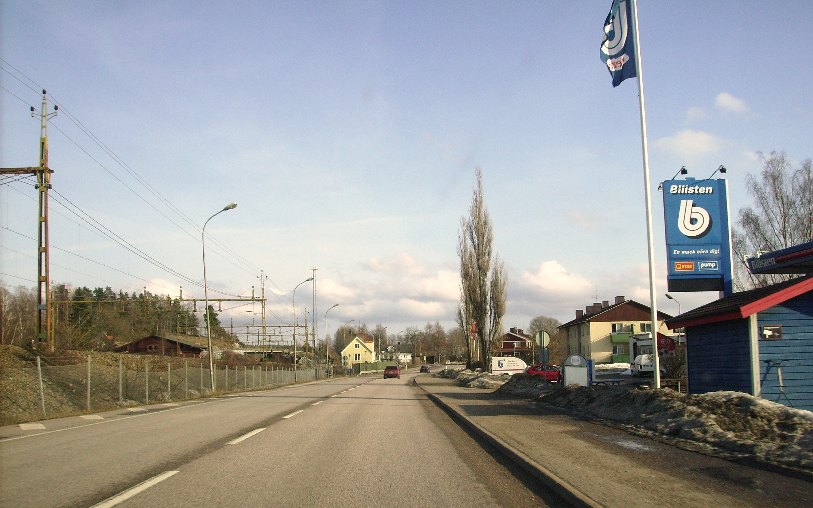 Picture of Stjärnhov in Södermanland